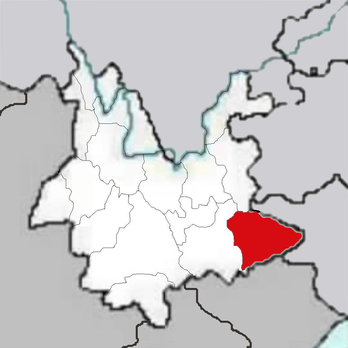 Yunan(云南) Province of China